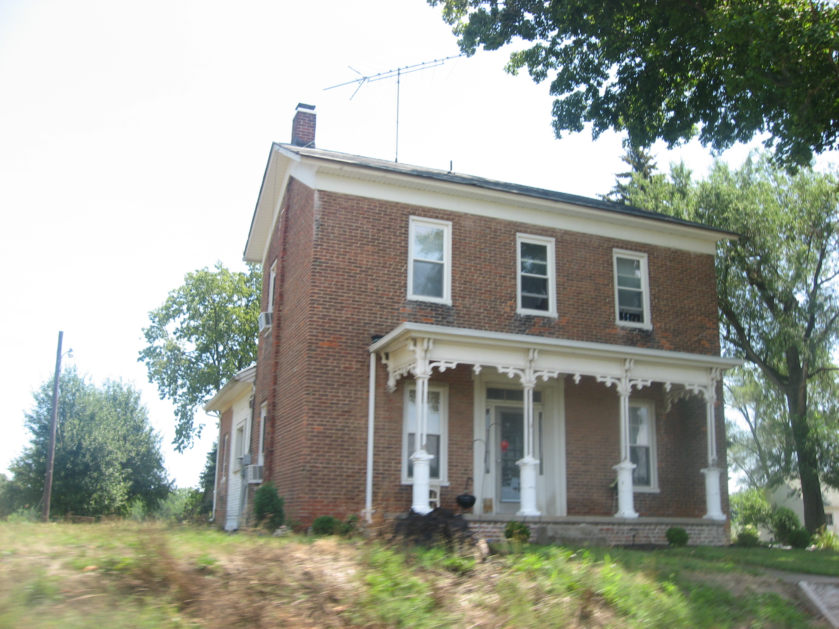 Front of the Chenoweth-Coulter Farmhouse, located at 7067 S. Etna Road northeast of La Fontaine in Wayne Township, Huntington County, Indiana, United States. Built in 1866, the farmhouse and related farmstead buildings are listed on the National Register of Historic Places.